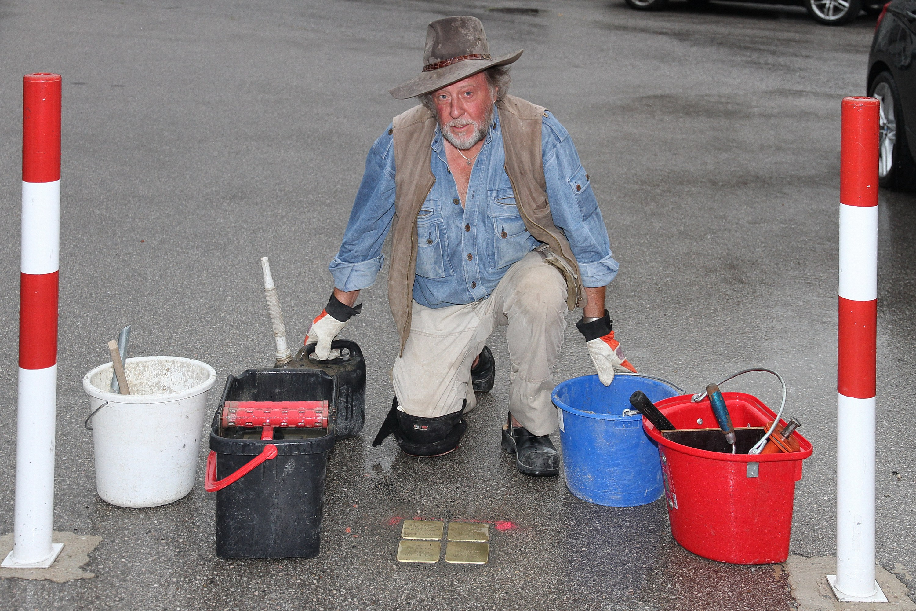 Laying of stumbling blocks in Pitten, Lower Austria. – The photo shows Gunter Demnig at work.